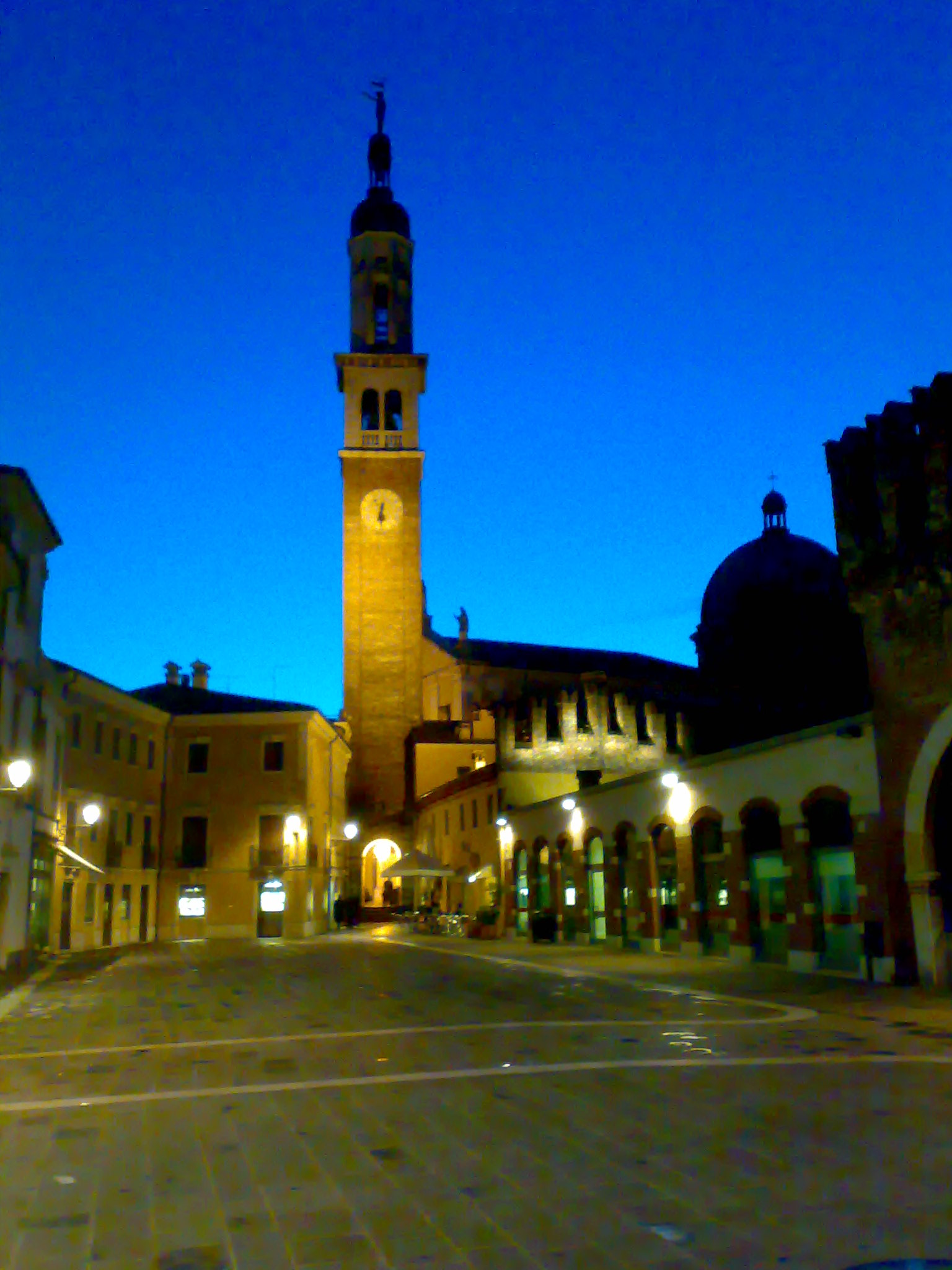 Piazza Chilesotti, Thiene